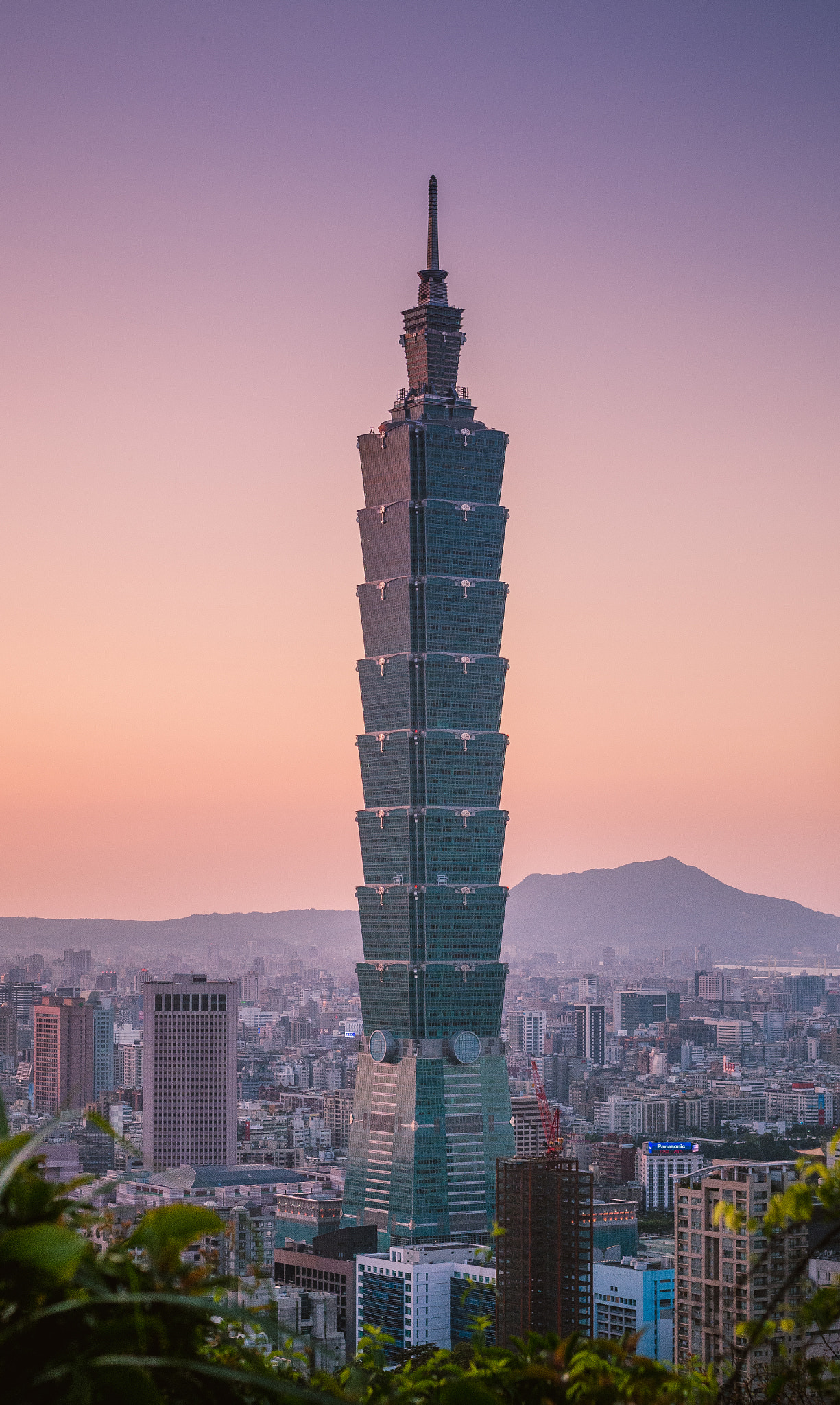 500px provided description: Taipei 101 building in the sunset. The color of the picture has been adjusted so that the building is not too dark. But the gradient of the sky is truly awesome in real life. [#sunset ,#building ,#taipei ,#taiwan ,#taipei 101 ,#elephant mountain]